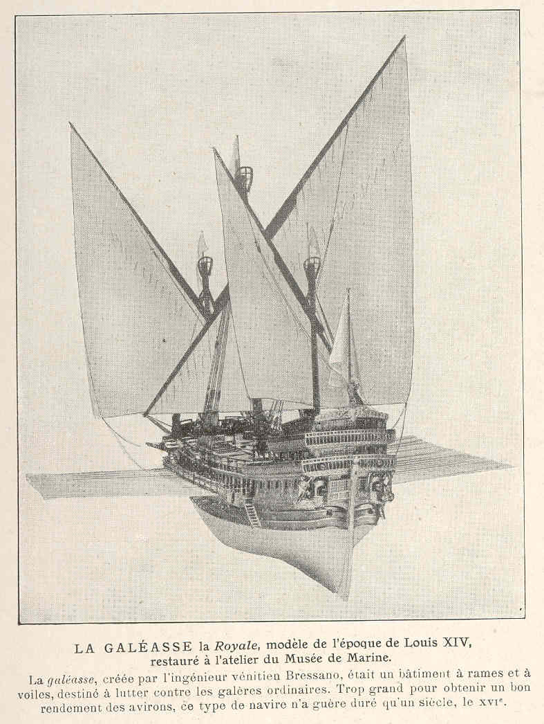 La Galeasse, cree par l'ingenieur venitien Bressano, etait un batiment a rames et a voiles, destine a lutter contre les galeres ordinaires. Trop grand pour obtenir un bon rendement des avirons, ce type de navire n'a guere dure qu'un siecle, le XVIe. Subject: Sailing ships, Royale (Ship), Galleass Tag: Vessels